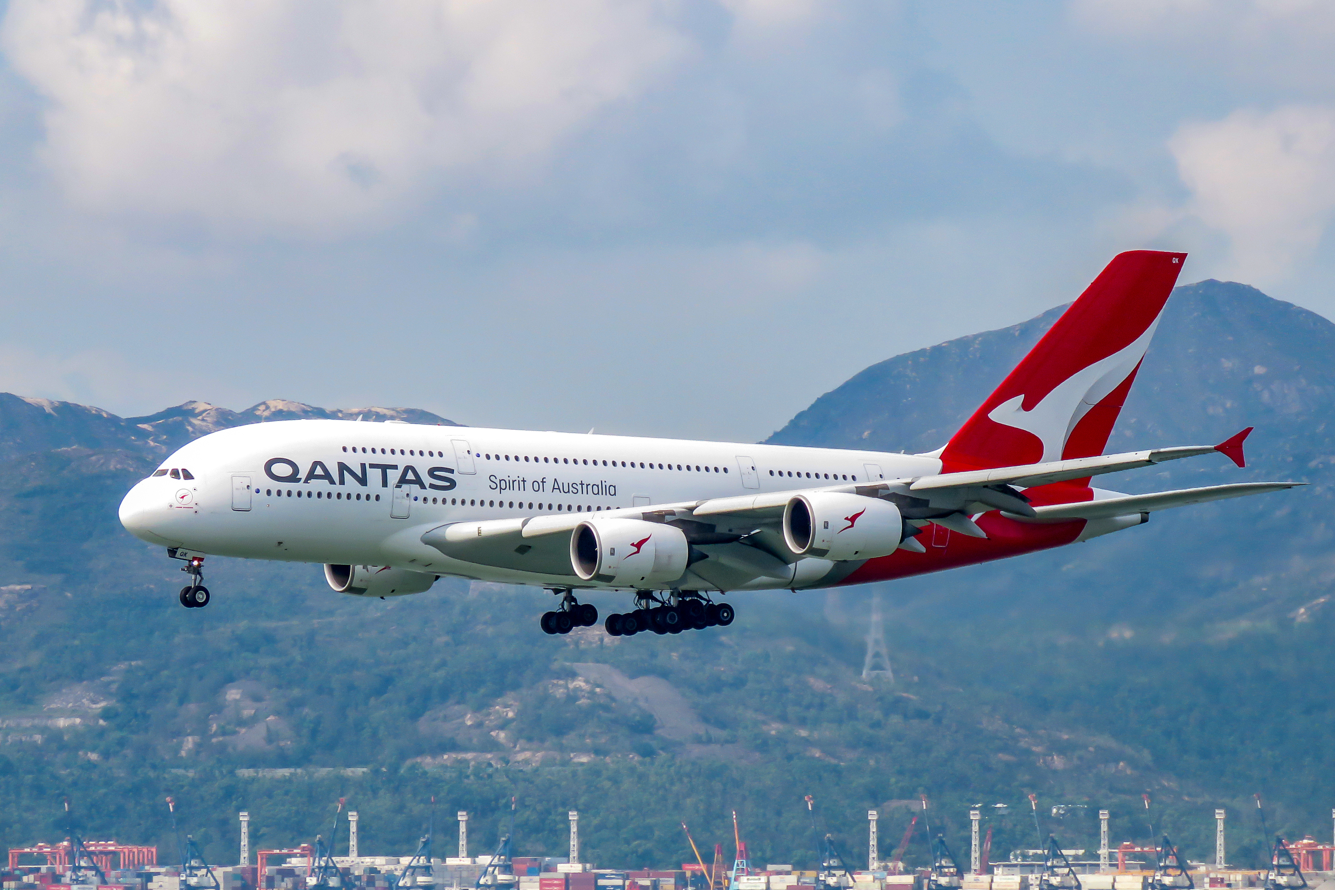 Qantas 127 from Sydney, with new typeface.